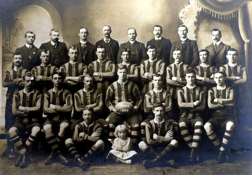 North Hobart F.C., an Australian rules football team